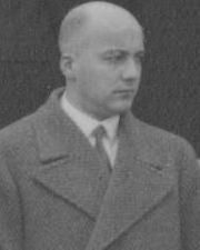 Helmut Hasse, Mathematical Society Jena, visitors' conference at Abbeanum in Jena, 26th until 28th October 1930.